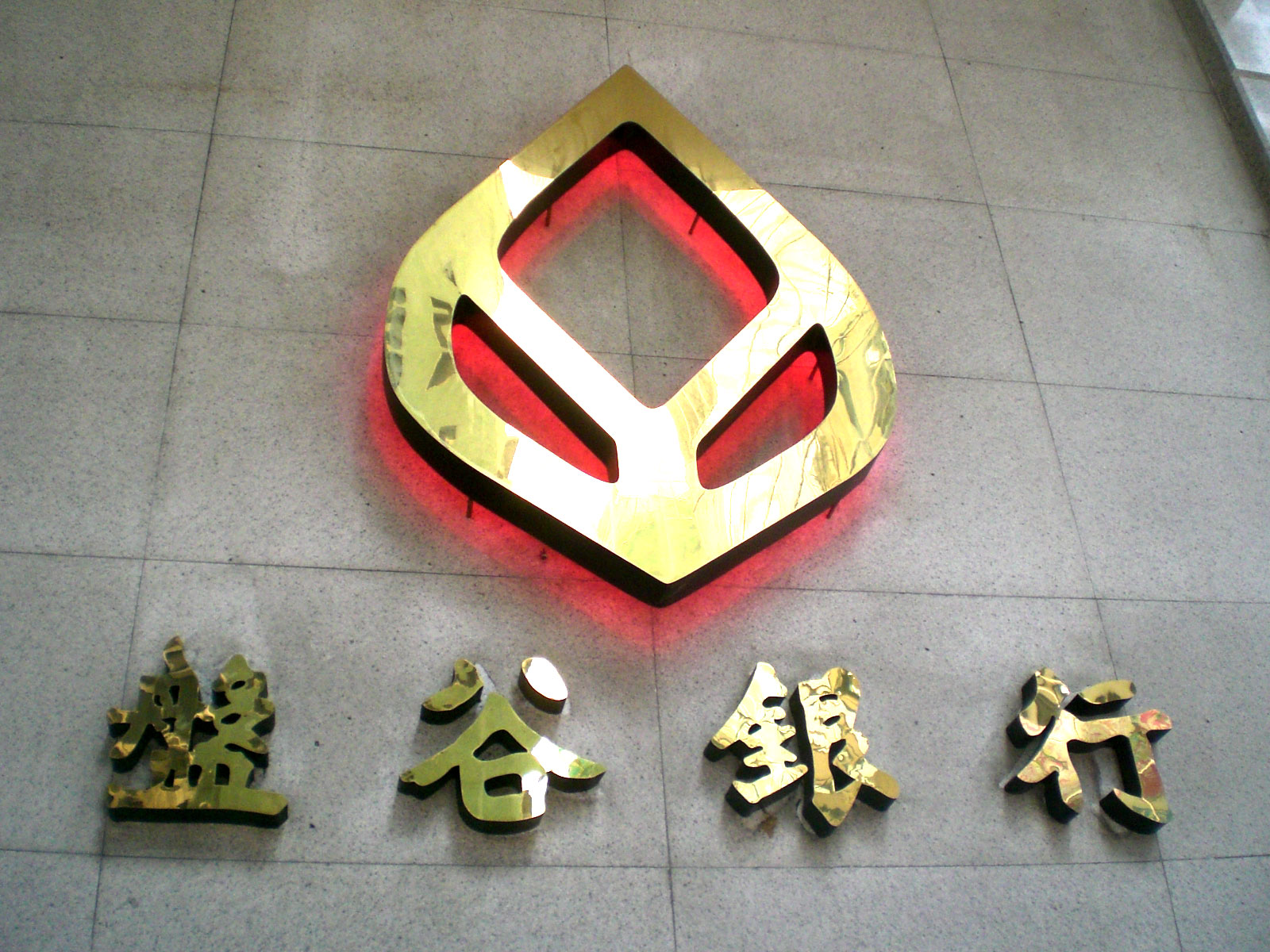 盤谷銀行大廈, Bankok Bank Building, 中環德輔道中28號, Des Voeux Road Central, Central, Hong Kong